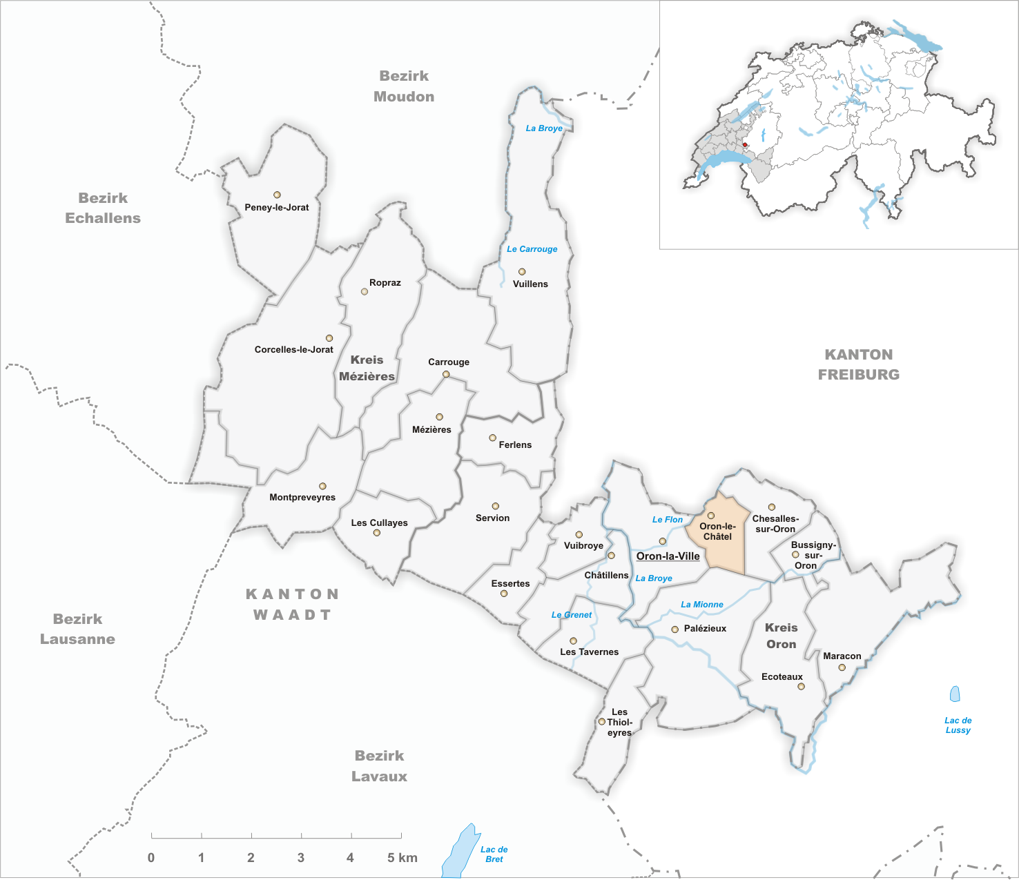 Municipality Oron-le-Châtel